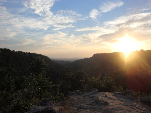 View from Mather Lodge breezeway on Petit Jean Mountain.